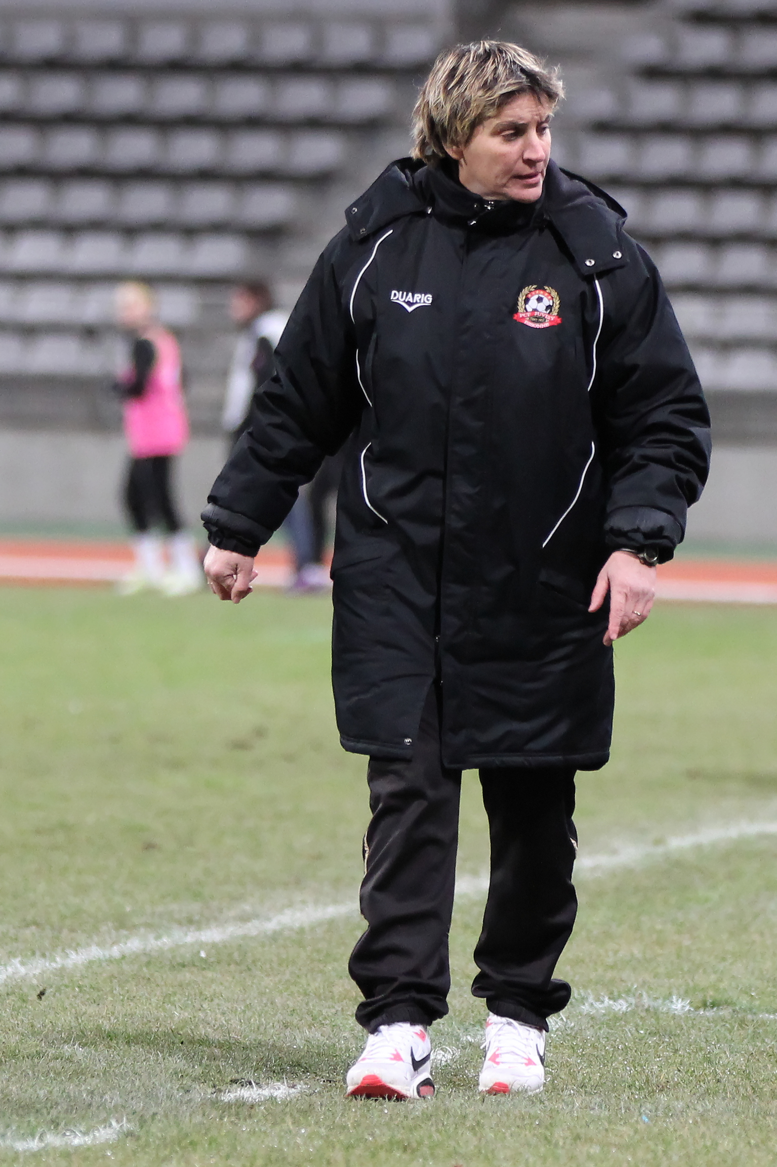 PSG-Juvisy, december 9th, 2012. Sandrine Mathivet, manager of Juvisy.